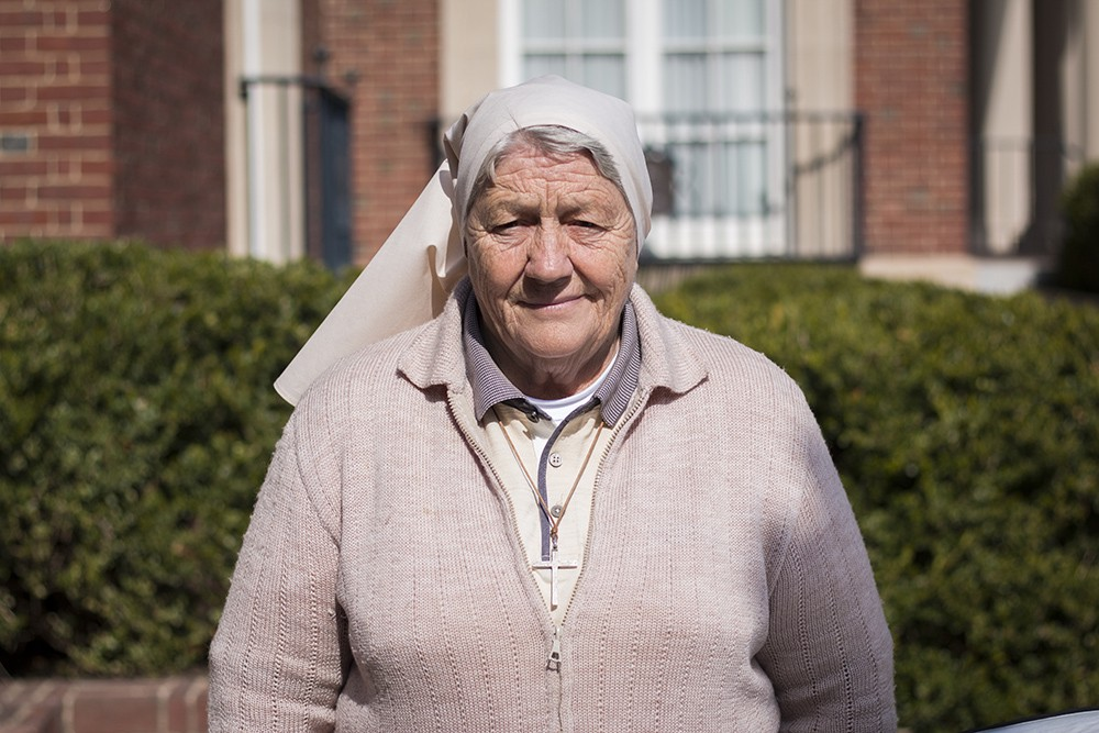 "Nominated by the U.S. Embassy in the Holy See, Sister Maria Elena Berini was born on December 9, 1944 in Sondrio, Italy. When she was 15, she dropped out of school to work in a textile factory to help her father support their family of six. There, she discovered firsthand the difficult working conditions for laborers, as well as a strong sense of worker solidarity. Out of a deep commitment to service, at the age of 19, she entered the novitiate of the Sisters of Charity of Saint Jeanne Anthide Thouret. From 1963 to 1969 she undertook religious, biblical, theological, and teacher training. She became a children’s teacher, but felt a calling to go to Africa. In 1972, she went to Chad where she discovered a love for the people, their traditions, culture, language, and religion. She also witnessed war, hate, injustice, and “indescribable horrors.” She continued her work in rural “bush” schools until 2007, when her congregation sent her to the Central African Republic (CAR). Sister Maria Elena has been working at the Catholic mission in Bocaranga, CAR since then and lived through the war in 2013 and 2014. Most recently, in February and September 2017, the rebel movement “TROIS R” attacked Bocaranga. Thousands of internally displaced people fled their homes and sought shelter at Sister Maria Elena’s mission, where they were welcomed and given refuge. Sister Maria Elena remains hopeful that peace in the CAR is possible."